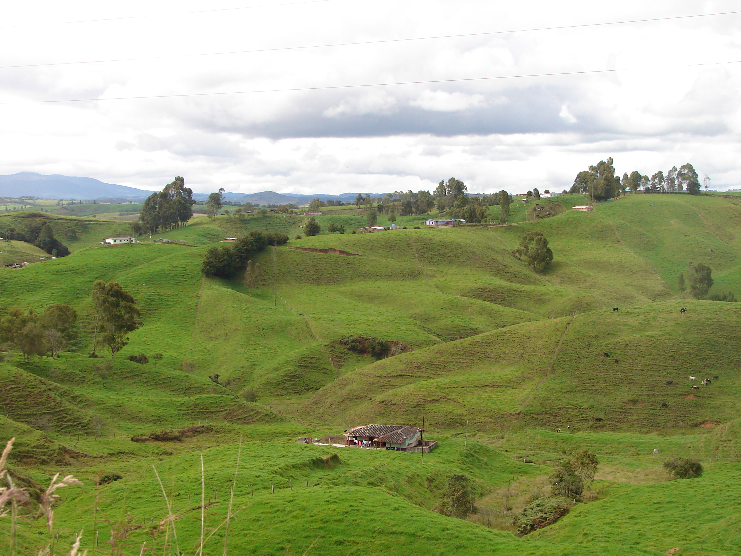 Cows farm lanscape in Santa Rosa de Osos, Antioquia - Colombia